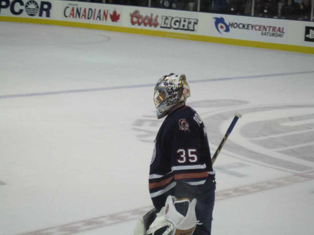 Dwayne Roloson during a nhl game of his Edmonton Oilers